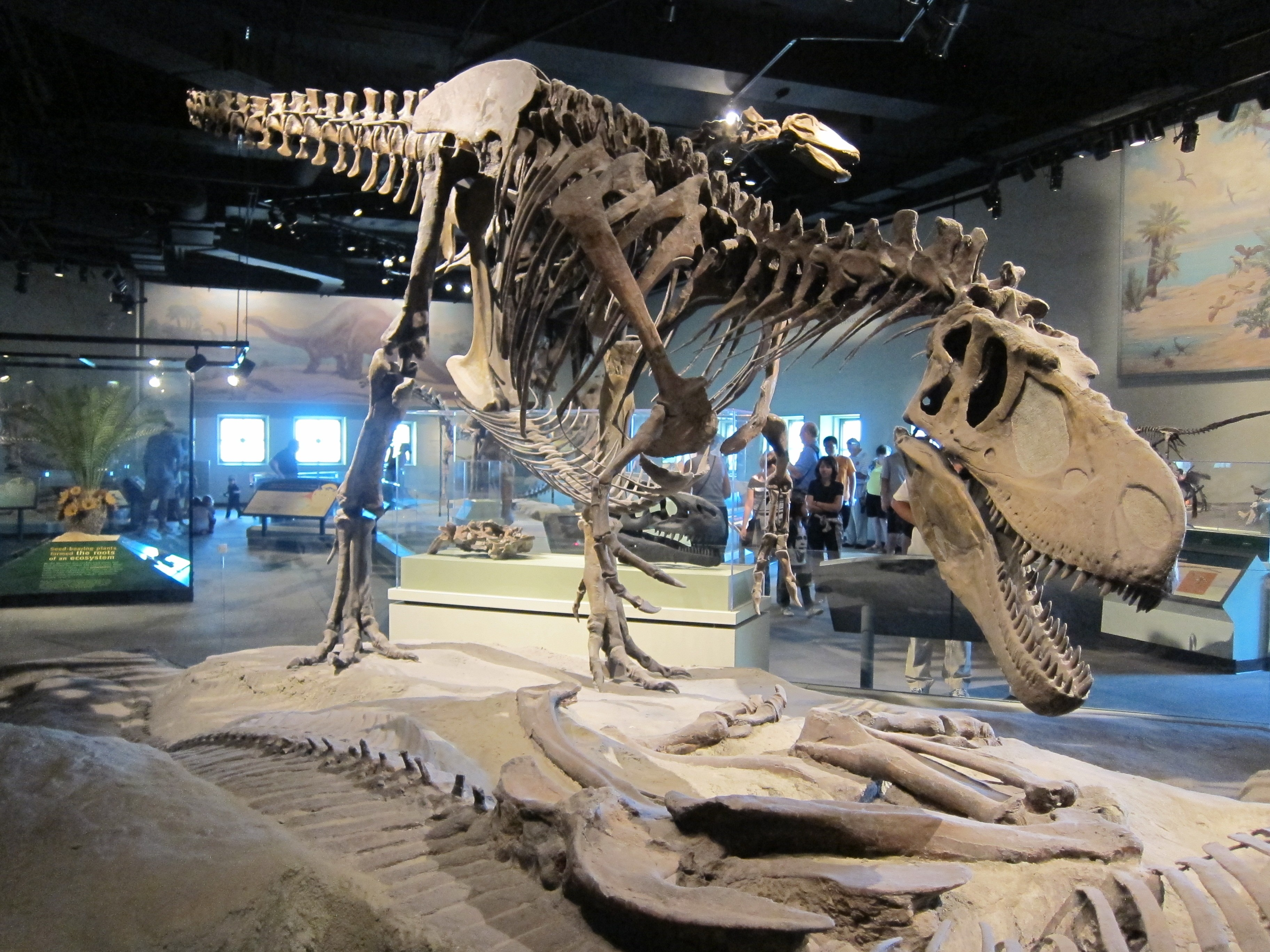 Chicago Field Museum - Daspletosaurus